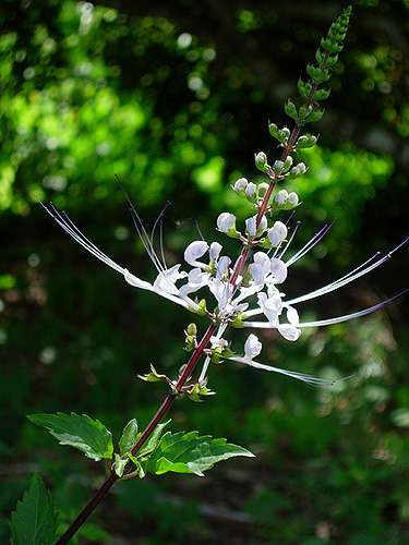 flowers of Orthosiphon stamineus